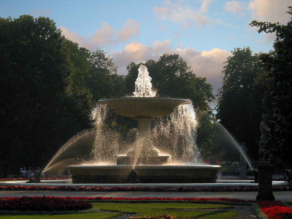 Fountain in Saxonian Garden, Warsaw.